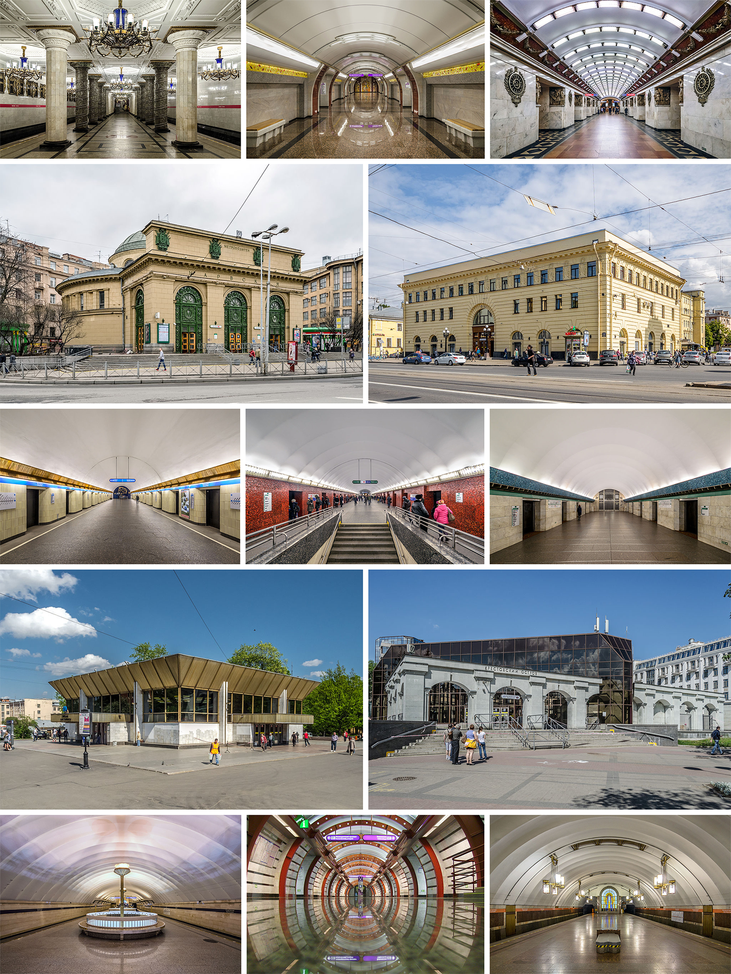 Stations of Saint Petersburg Subway